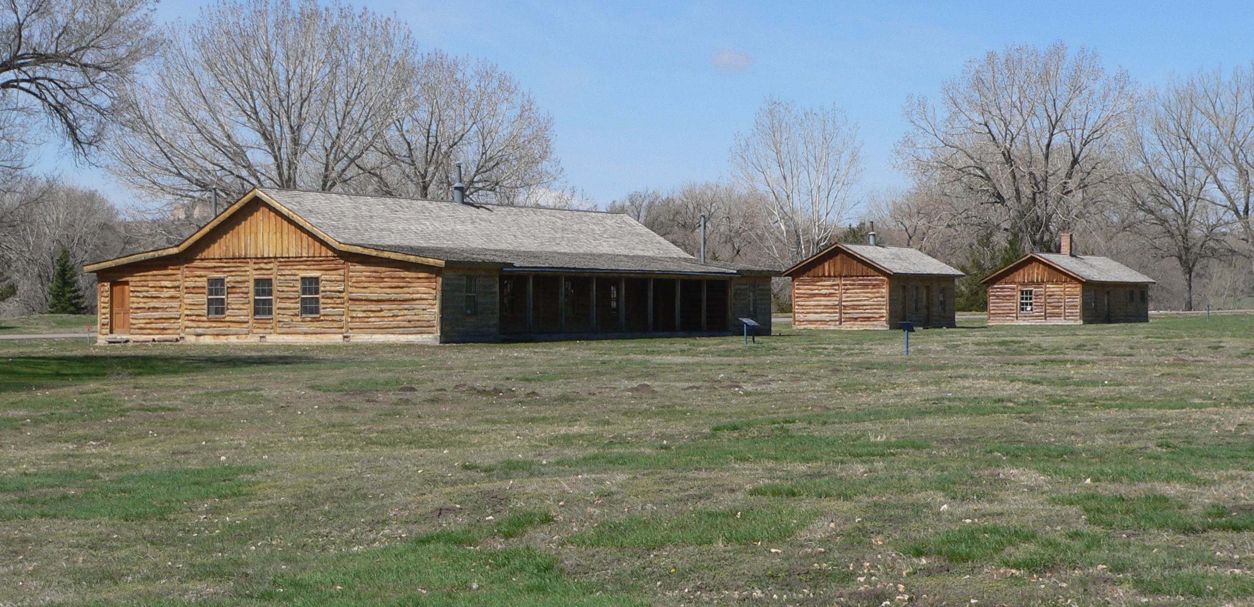 Buildings on 1874 parade ground at Fort Robinson near Crawford, Nebraska. From left to right are Cheyenne Outbreak Barracks, adjutant's office, and guardhouse. All buildings are reconstructions.